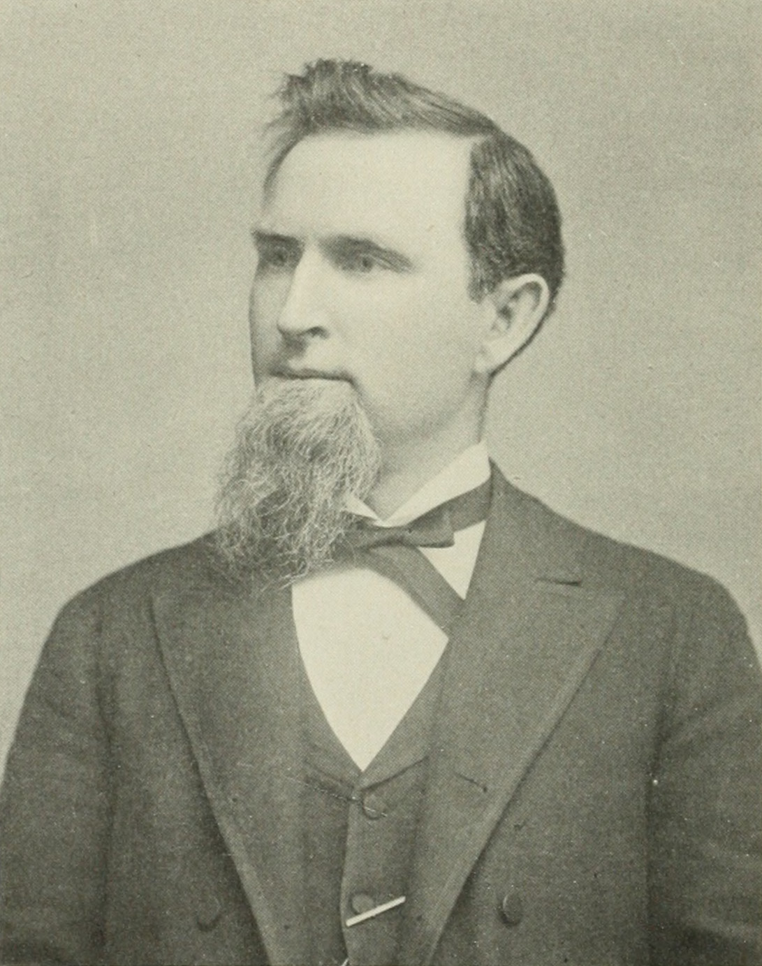 Senator Thomas Henry Carter